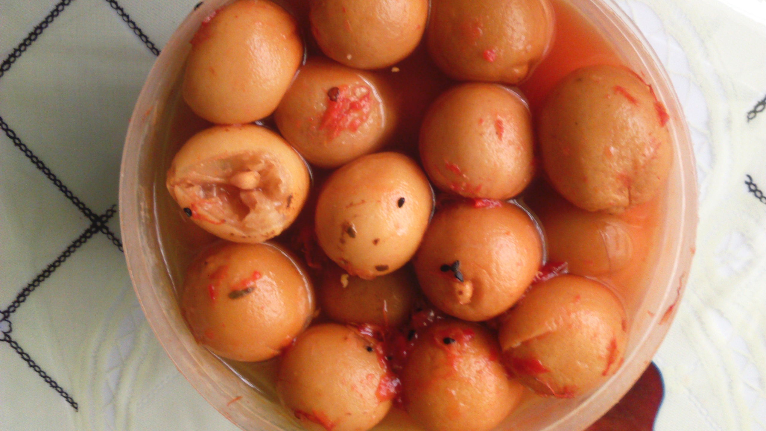 This is an image of food from Egypt